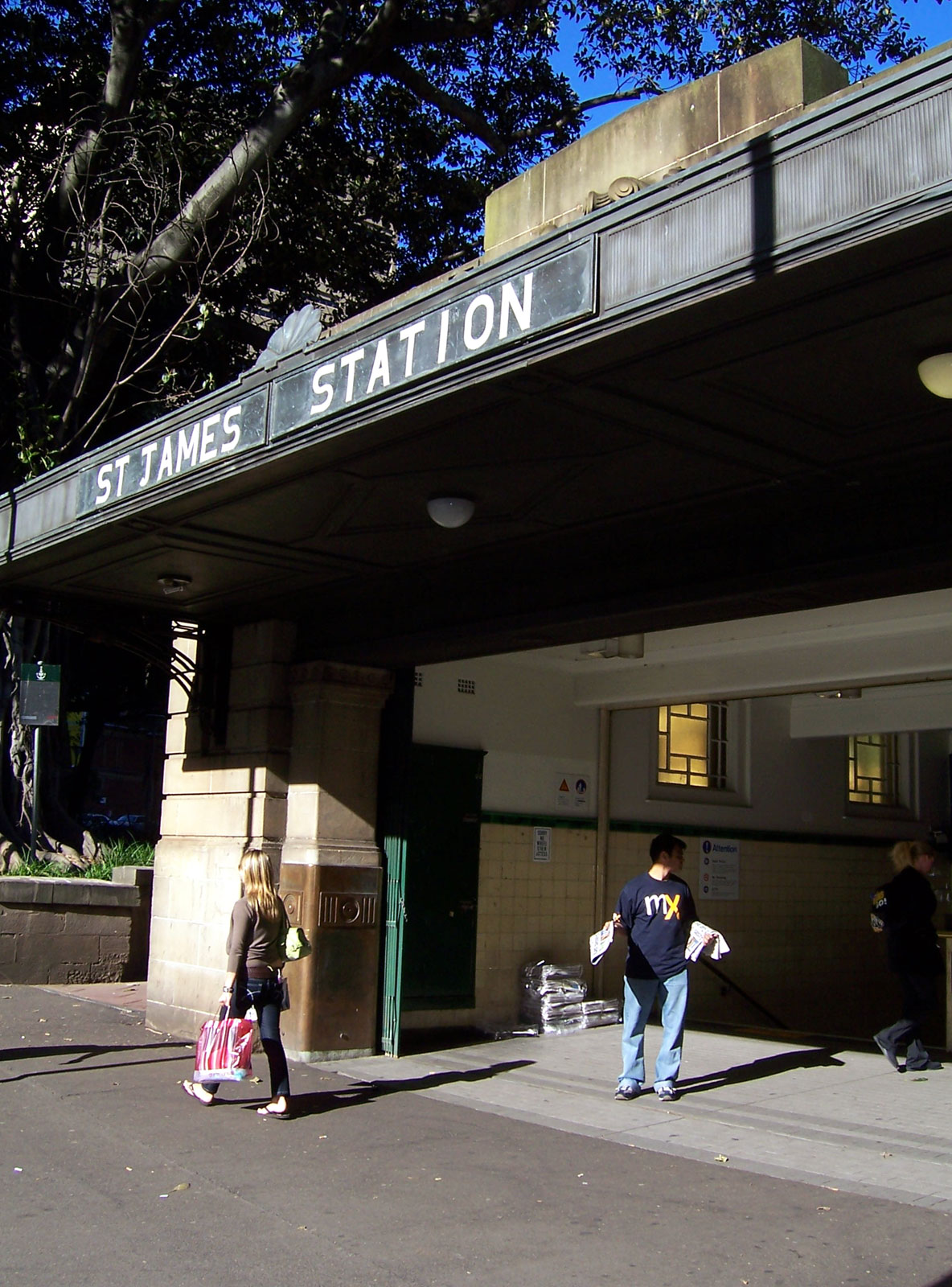 A man gives out free copies of MX (newspaper) outside St. James railway station, Sydney. As a courtesy, please let me know if you alter this image or this image description page. Original filename was 100_0619.JPG.